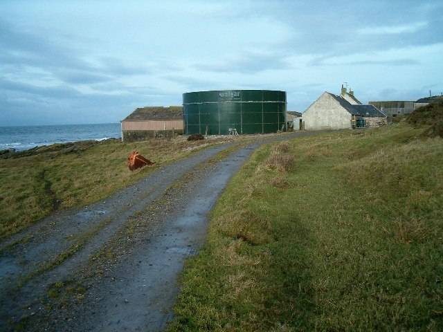 Dairy Farm at Dalkeith. This farm is likely to be demolished and replaced by housing, which will have a fabulous view west to Gigha, Islay and Ireland.